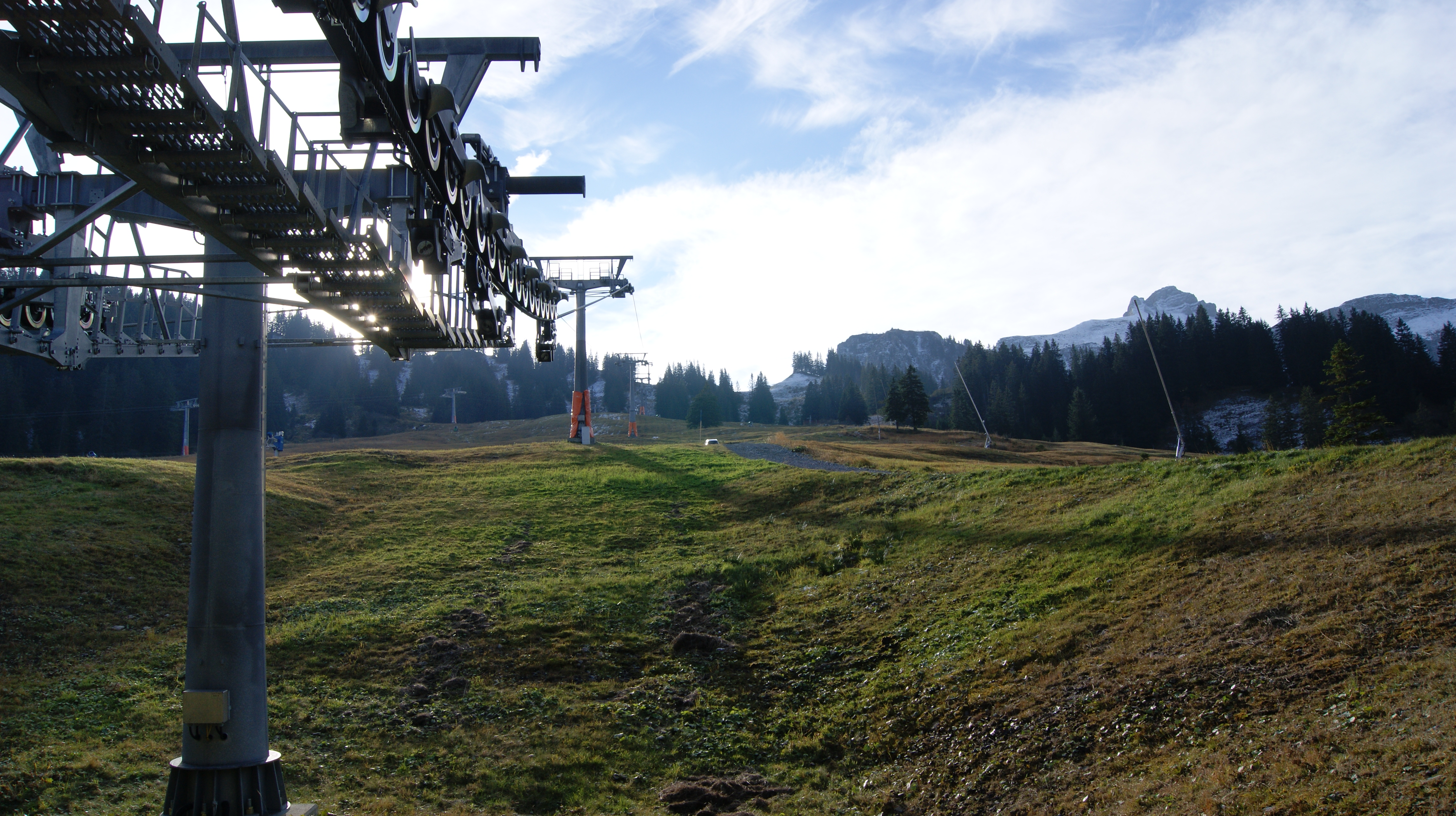 Ski run near the Cable car "Gipfelbahn" (meaning: Summit cable car) in Mellau, Vorarlberg, Austria.